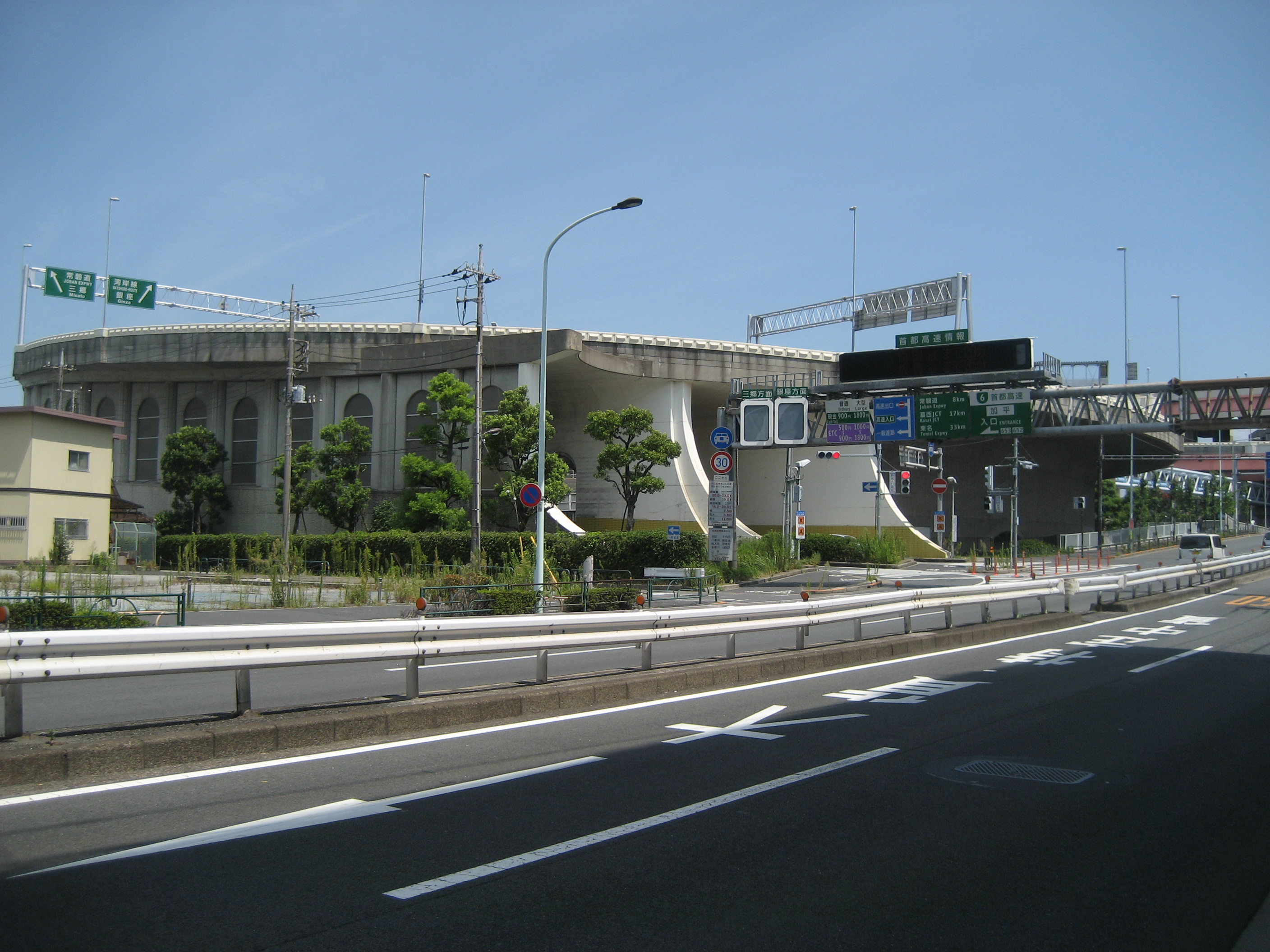 Kahei Interchange on the Metropolitan Expressway Route 6